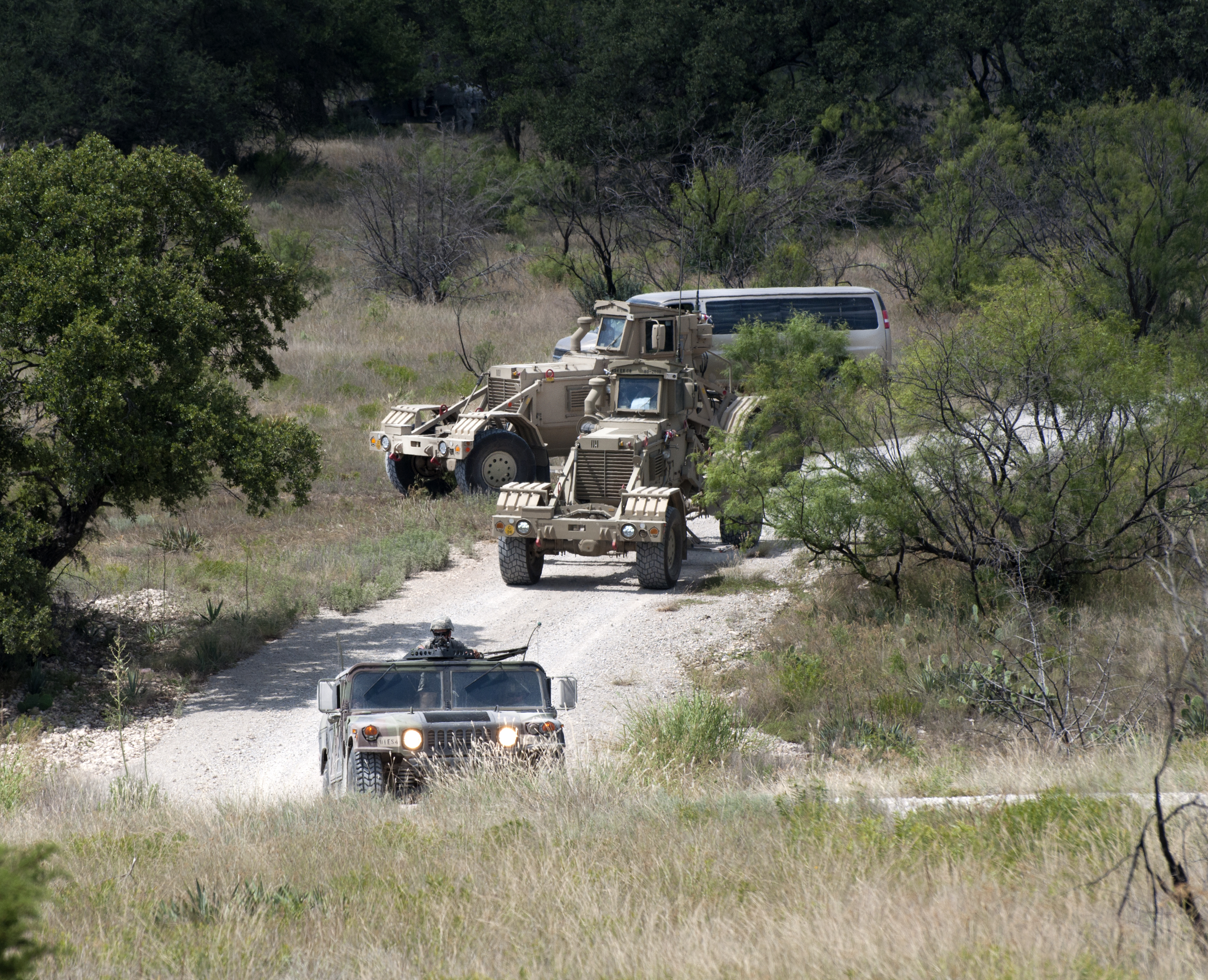 A route clearance convoy from the 454th Engineer Company, 111th Engineer Battalion, Texas Army National Guard, awaits further instructions from the convoy commander following a simulated explosion during a training mission at Camp Bowie in Brownwood, Texas, June 17, 2013. The engineer company, based out of San Angelo, Texas, is preparing for a slated deployment to Afghanistan in early 2014, and is the only route clearance mission team within the Texas National Guard. (National Guard photo by Laura L. Lopez/Released)